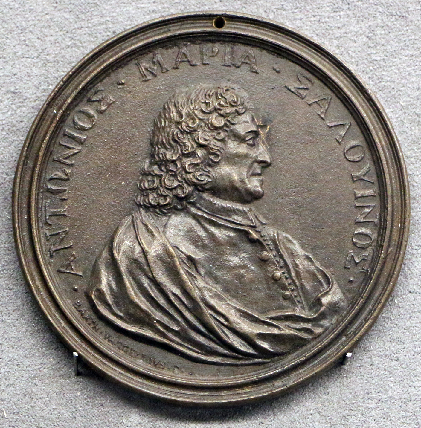 Winckelmann, Firenze e gli Etruschi (2016 exhibition)